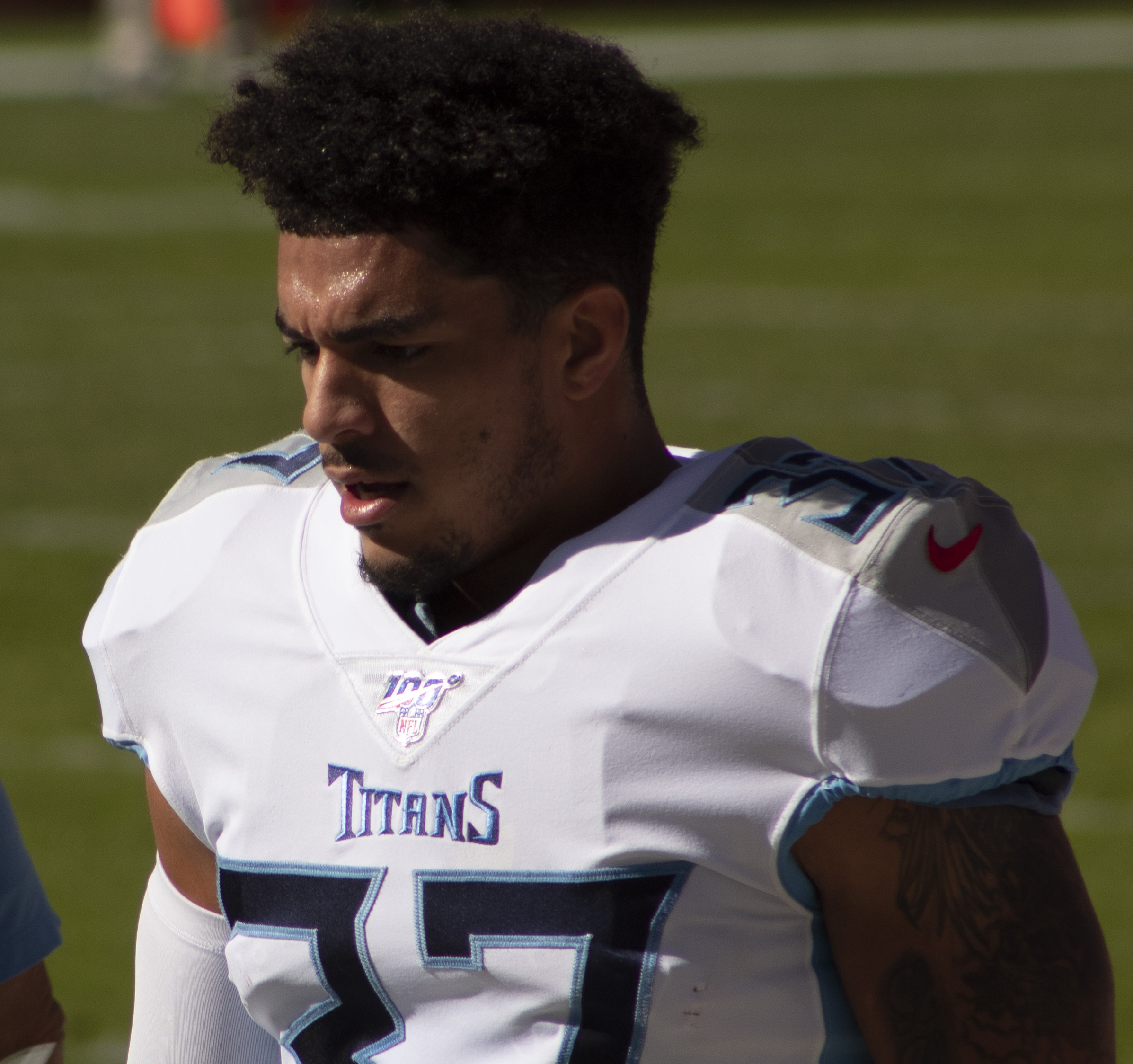 Amani Hooker with the Tennessee Titans on October 13, 2019